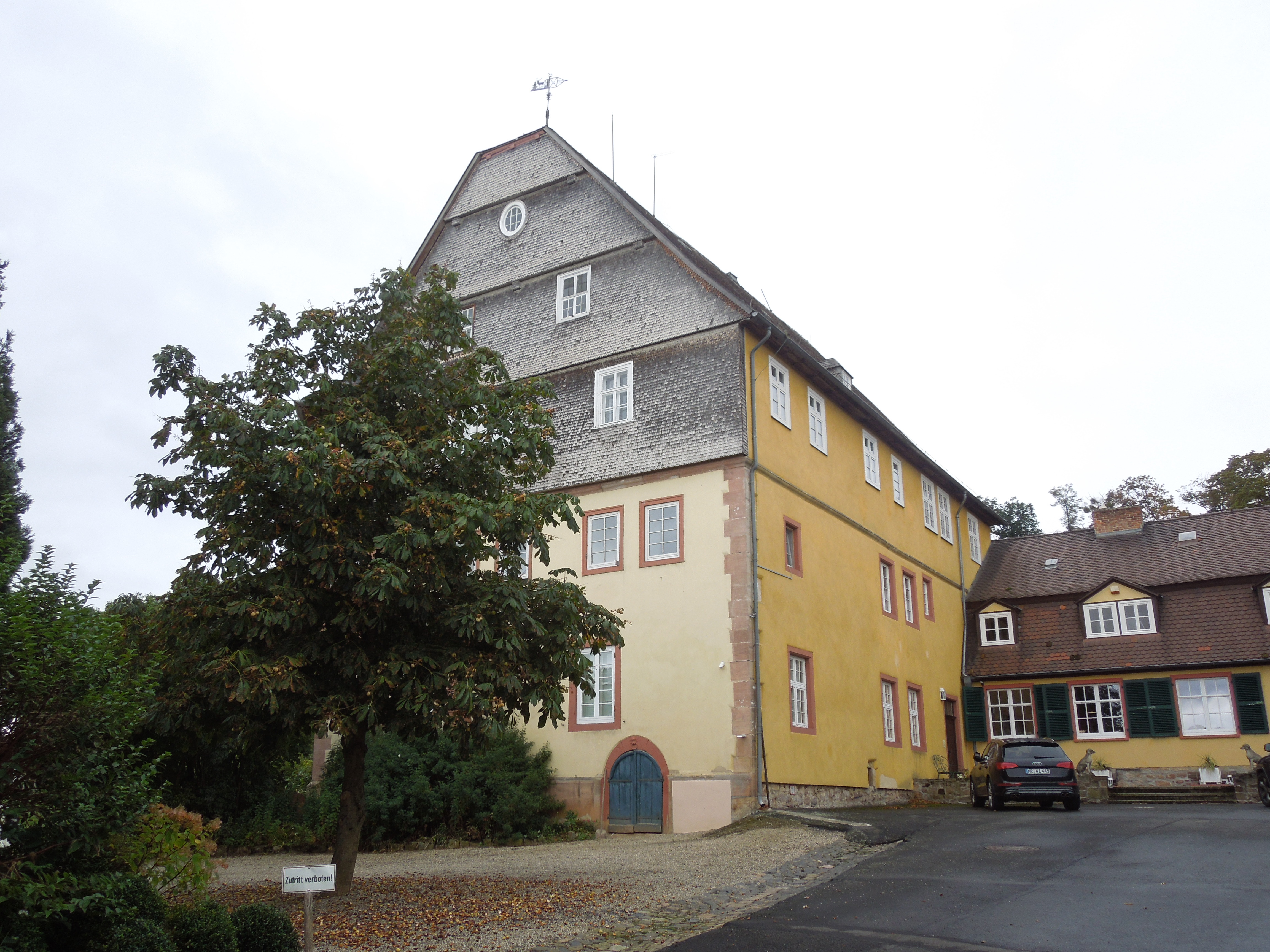 The castle in Willingshausen, seen from the southeast